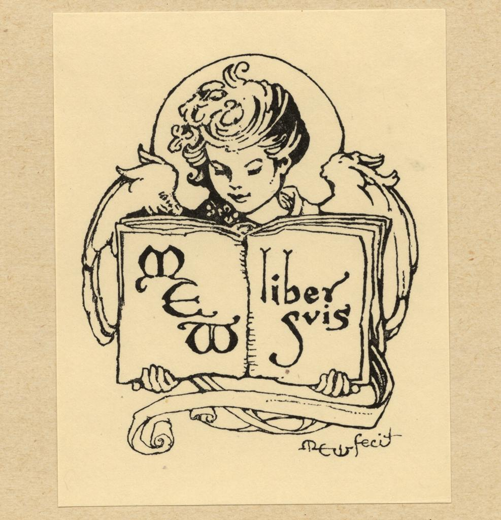 Pictorial Bookplates. Subject: Open books; Angels. Subject - Personal Name: Webb, Margaret Ely.